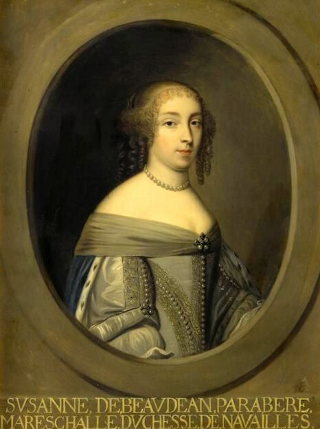 Portrait of Susanne de Navailles, by Auguste de Creuse.